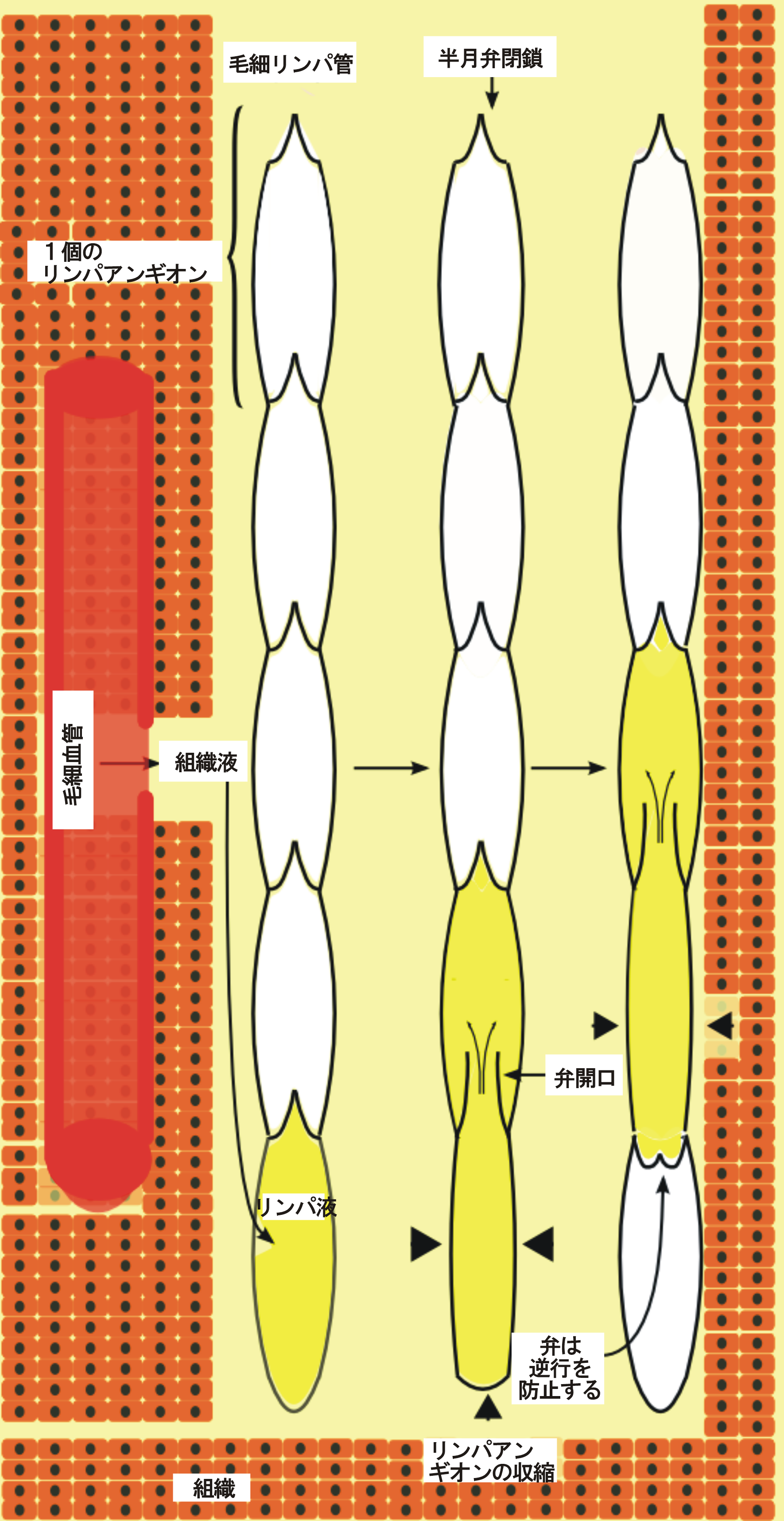 Propulsion of lymph through lymph vessel